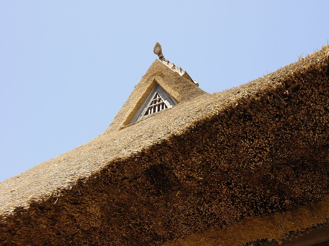 Thatched_roof